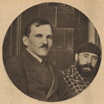 Czech painters Karel Boháček and Jan Zrzavý (1928)